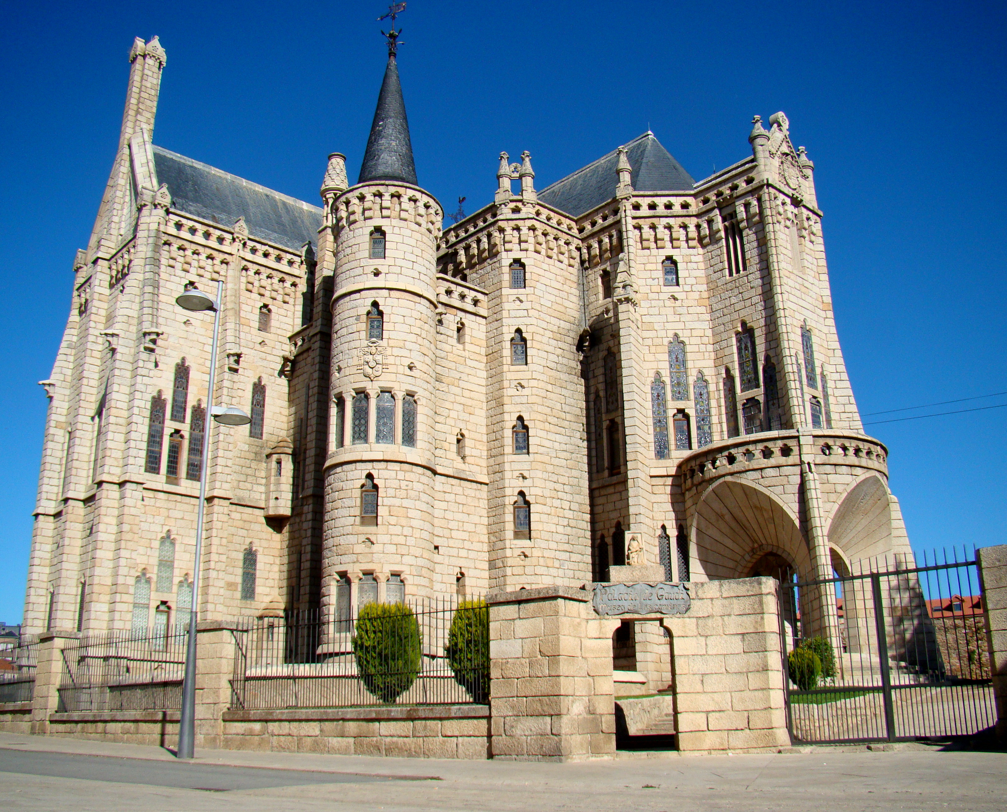 Palacio Episcopal in Astorga, Spain, as seen from the entrance on the Plaza Catedral.